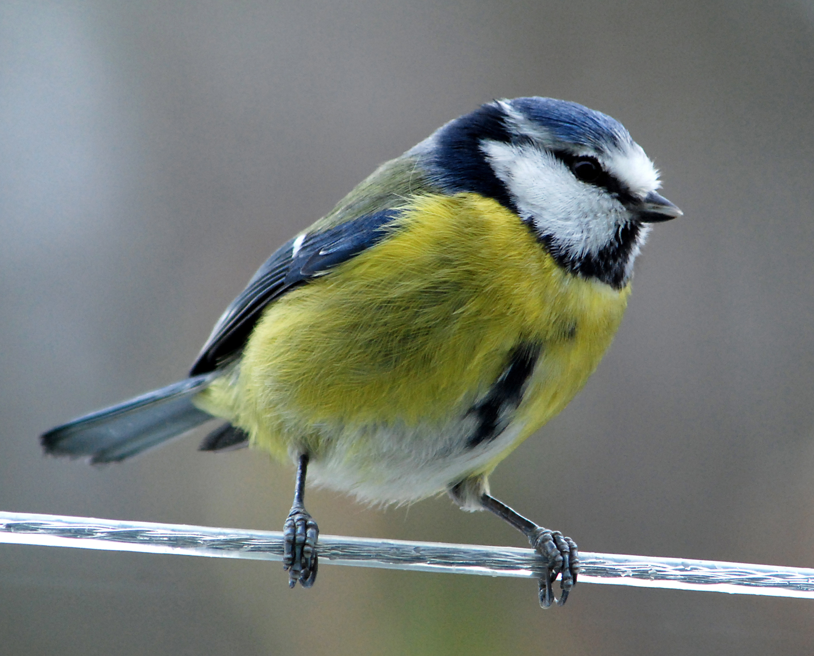 Blue Tit on a washing line One of many that that feed in this garden. Taken with a 300mm Nikkor through a double glazed window. Download the large version of this and look at the claws, they look more like something from a reptile!